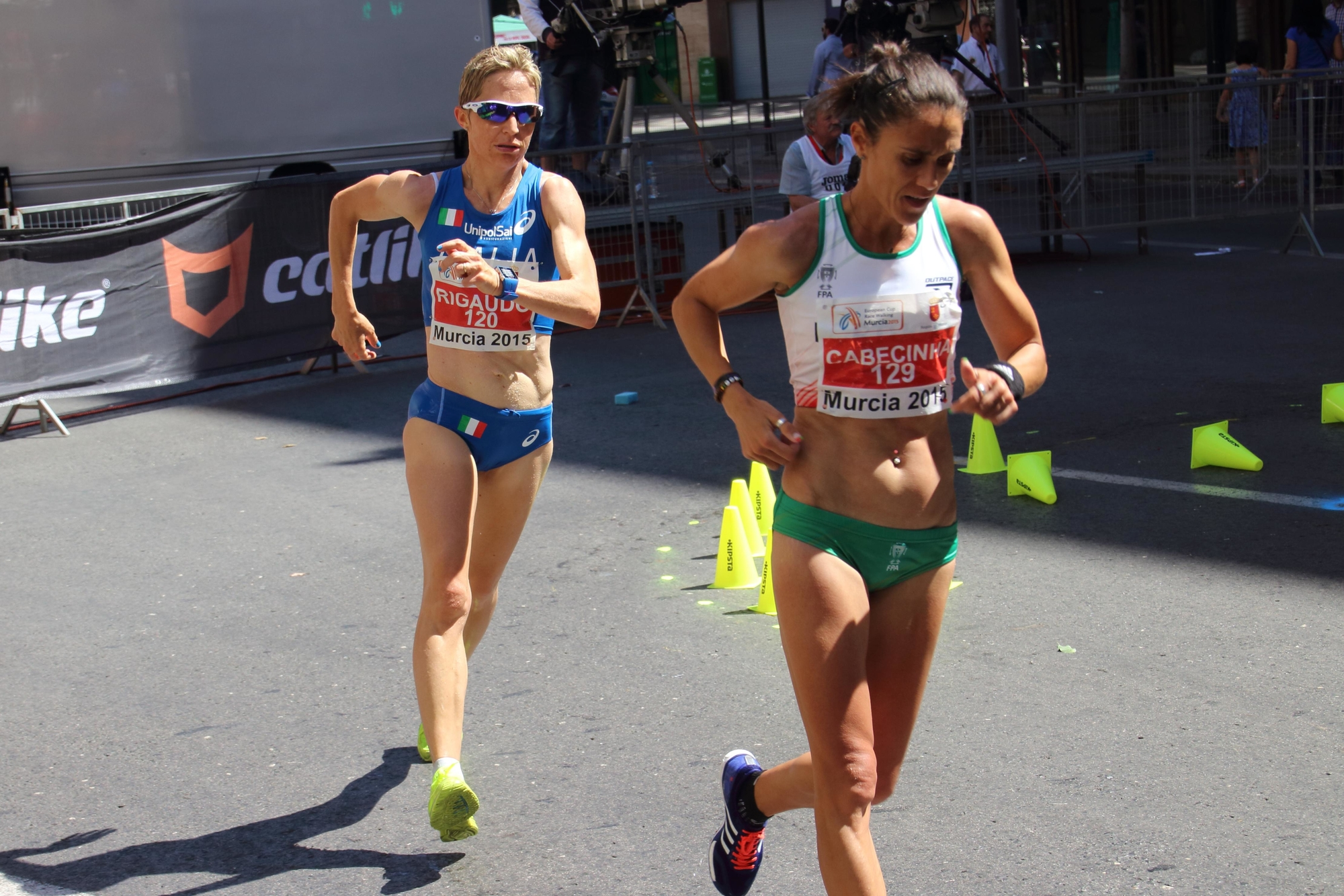 Ana Cabecinha (129) and Elisa Rigaudo (120) in the European Cup Race Walking 2015 (Murcia, Spain).